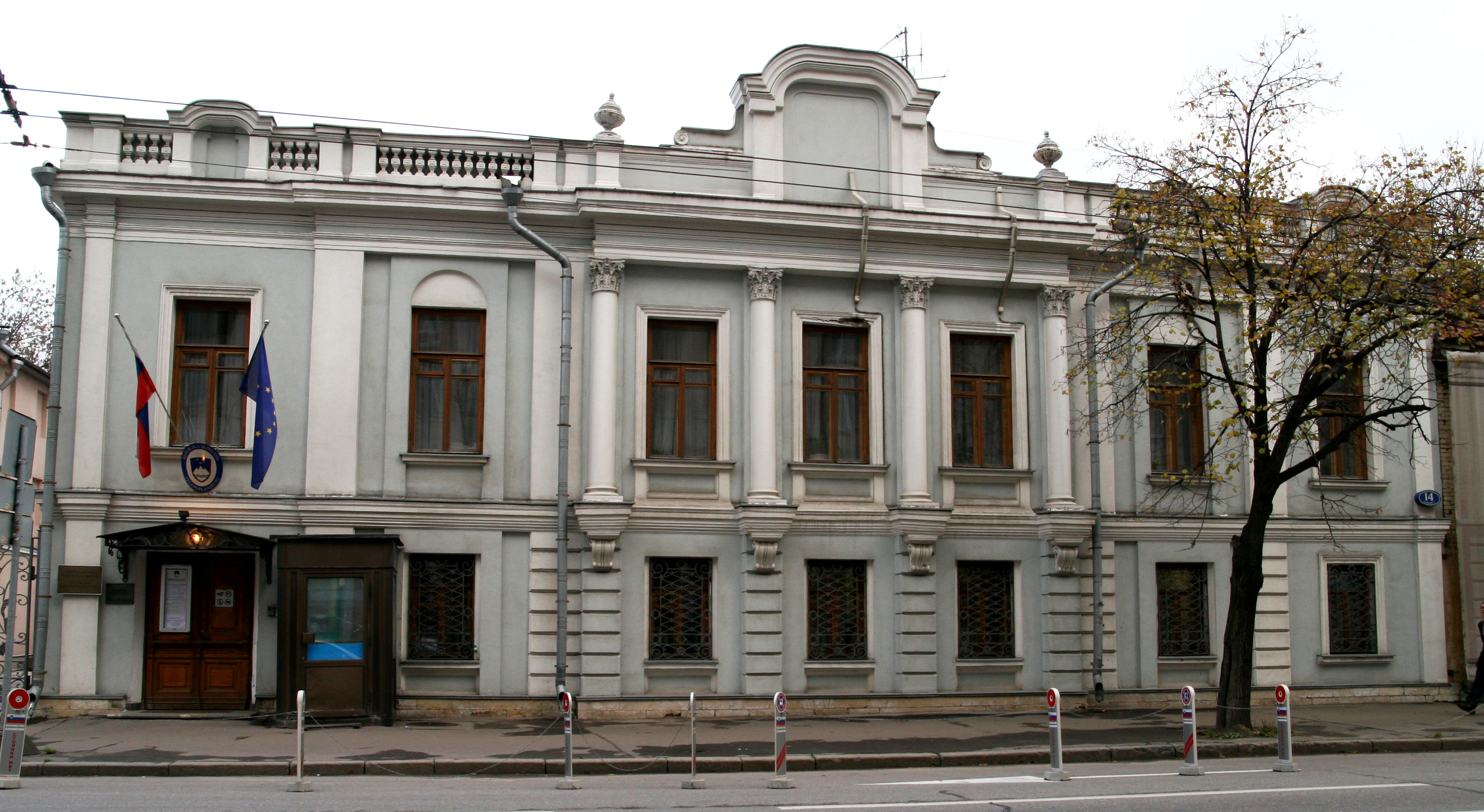 Moscow, Malaya Dmitrovka Street 14, Embassy of Slovenia